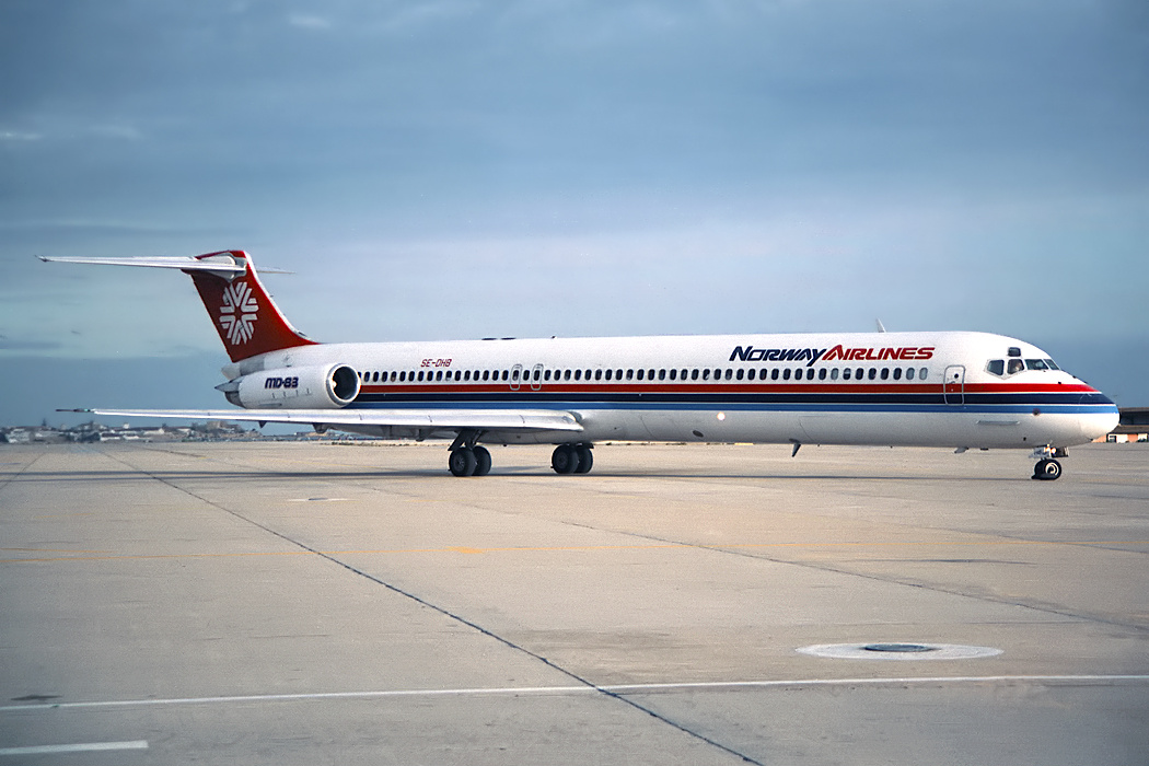 Norway Airlines McDonnell Douglas MD-83 SE-DHB at Faro Airport